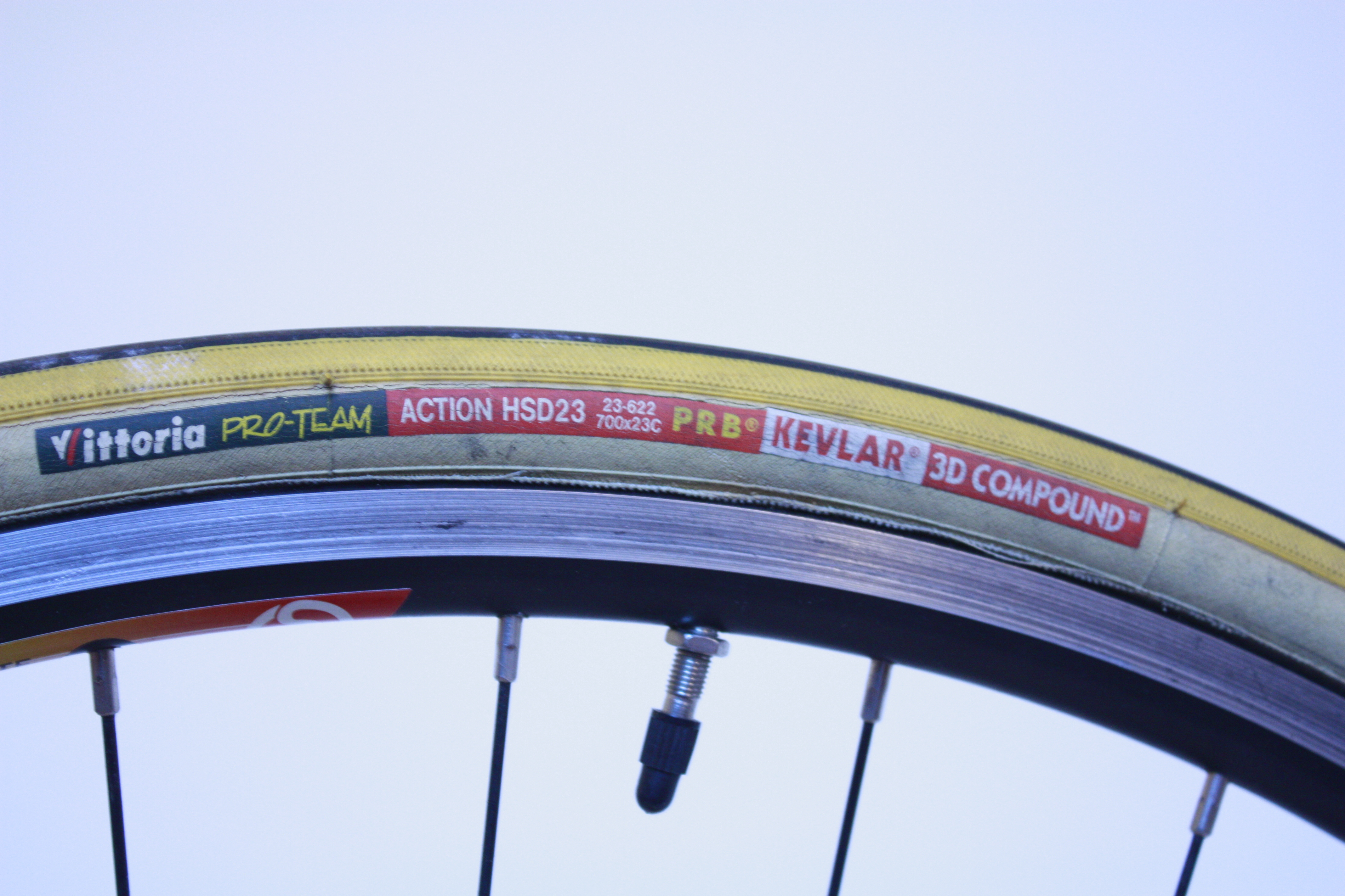 Vittoria bike tire